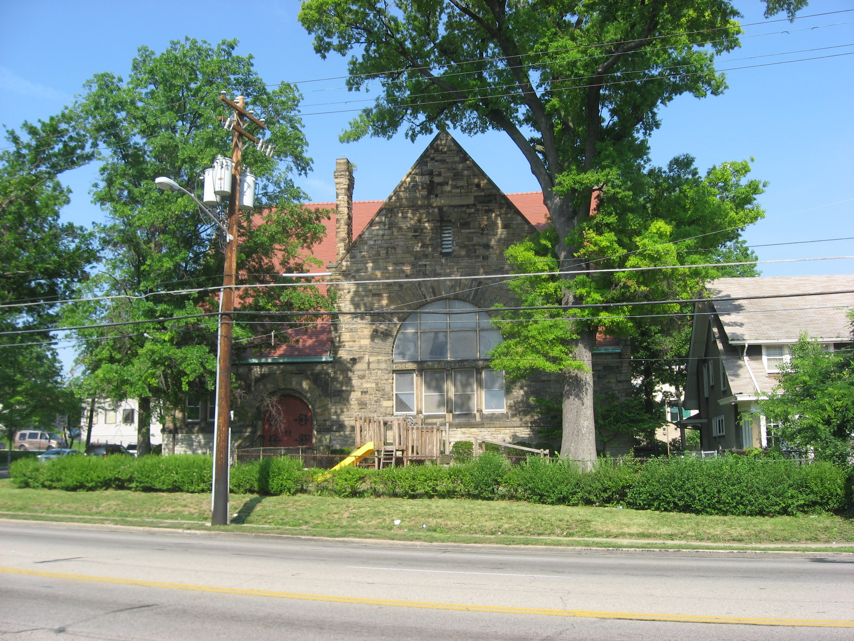 The First Congregational-Unitarian Church, located at 2901 Reading Road in Cincinnati, Ohio, United States. Built in 1889, the Richardsonian Romanesque church is listed on the National Register of Historic Places.